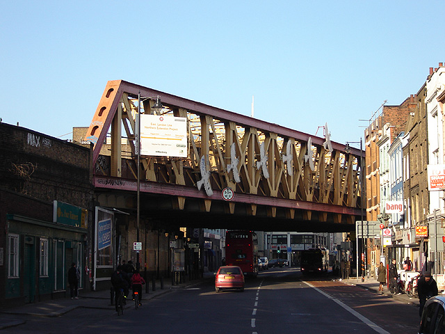 Kingsland Road, Shoreditch, Hackney. 28 January 2006. Photographer: Fin Fahey.